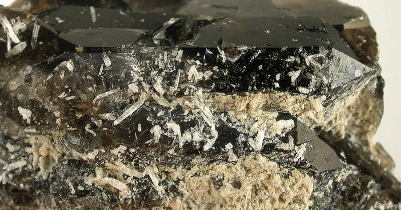 Palermoite Locality: Palermo No. 1 Mine (Palermo #1 pegmatite), Groton, Grafton County, New Hampshire, USA (Locality at ) Size: small cabinet, 7.2 x 5.2 x 4.7 cm Palermoite Palermoite is a very rare phosphate, first found in 1952 at this type locality for the species. To date, it has been found at just a few other locales, and still these crystals are the best. This particularly rich specimen is one of the larger, richer specimens with display aesthetics overall, according to Bob Whitmore. It has hundreds of palermoite crystals, many still covered by pocket clay just the way he found it. The top portion has been cleaned a bit, to reveal sharp crystals to 4mm nicely contrasted on lustrous, dark smoky quartz. Ex. Robert Whitmore Collection.